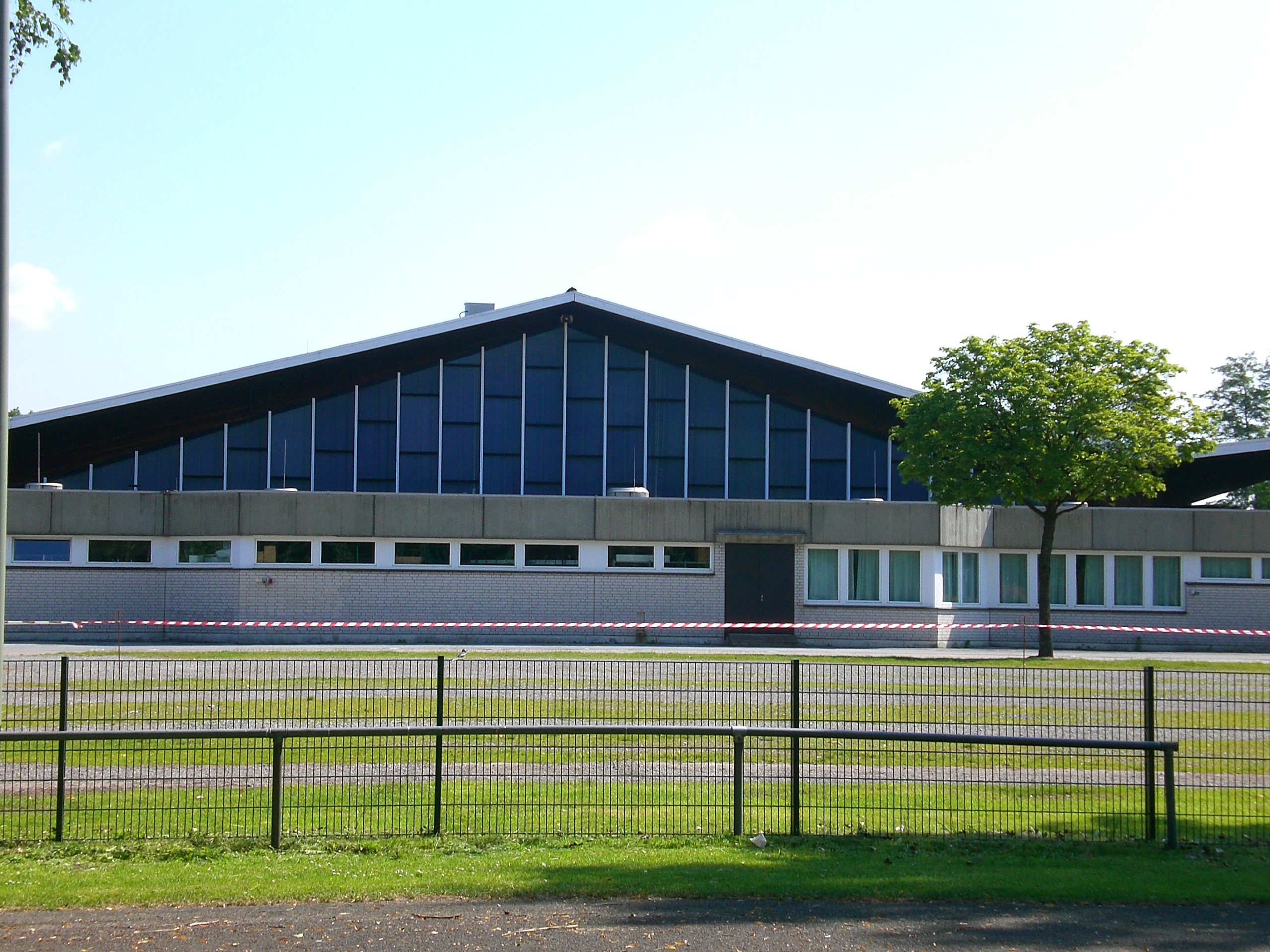 Side view of the Ostwestfalenhalle in Kaunitz a district of Verl.